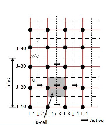 u-velocity cell at intake boundary